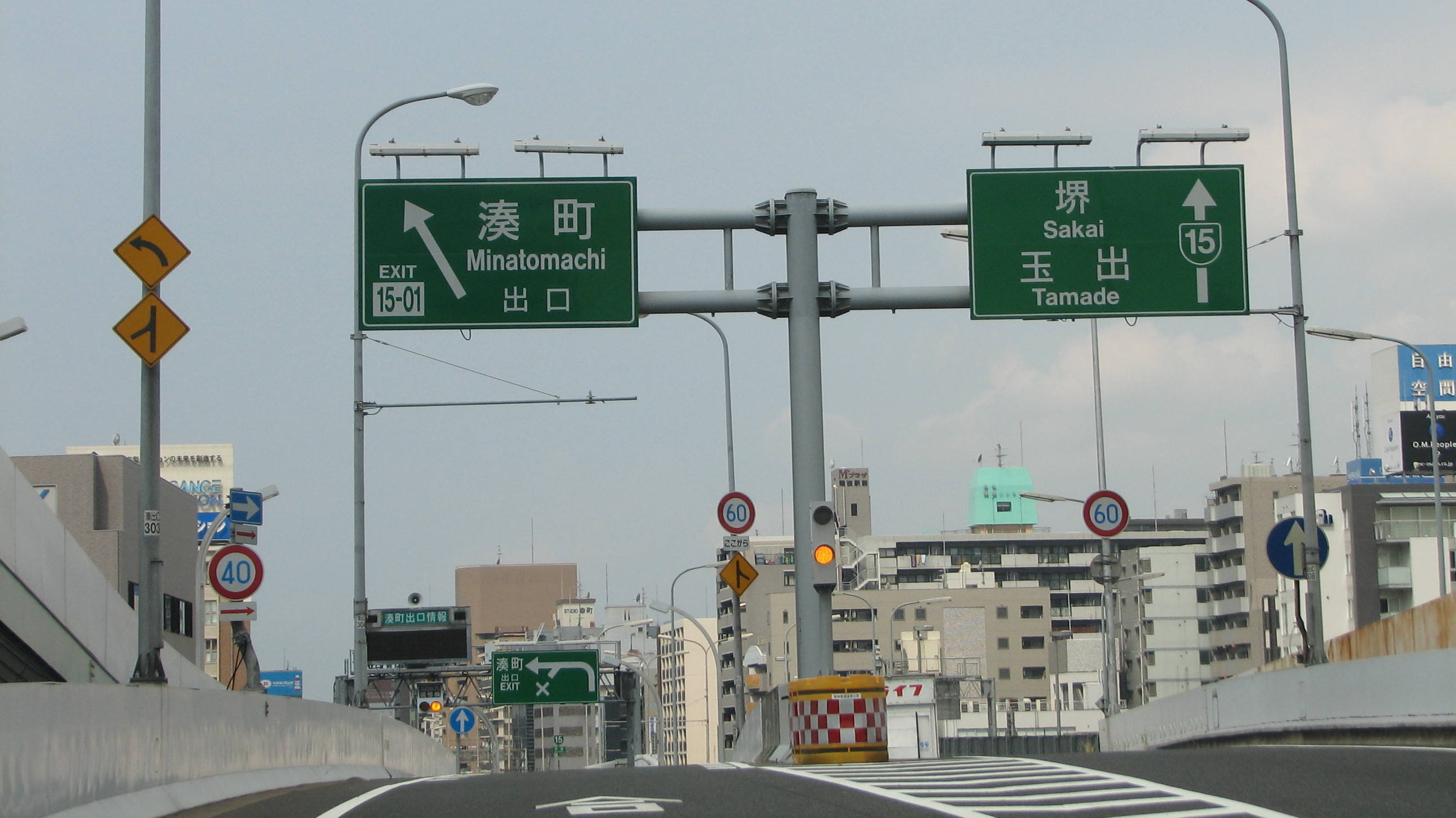 Hanshin Expressway Minatomachi IC (from Loop Route)